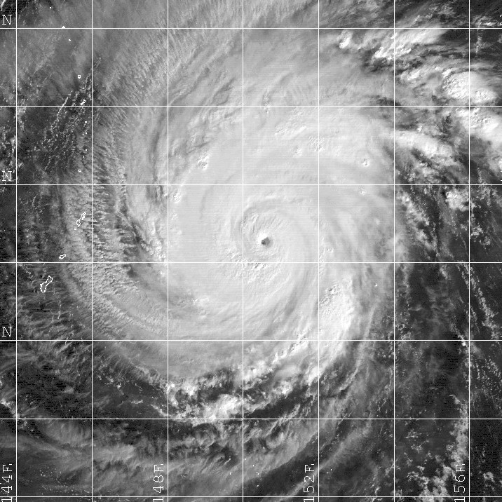 TRMM overpass from the GMS-5 satellite of Typhoon Faxai near its peak intensity on December 22, 2001